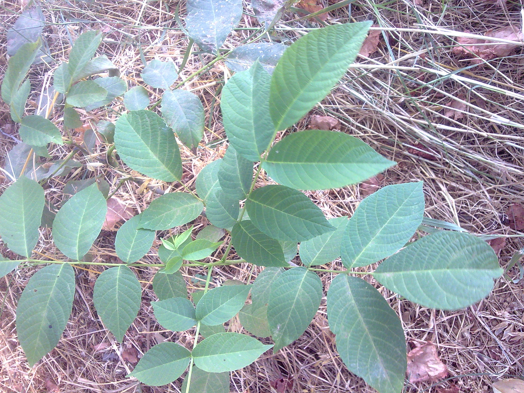 Juglans regia - very young tree